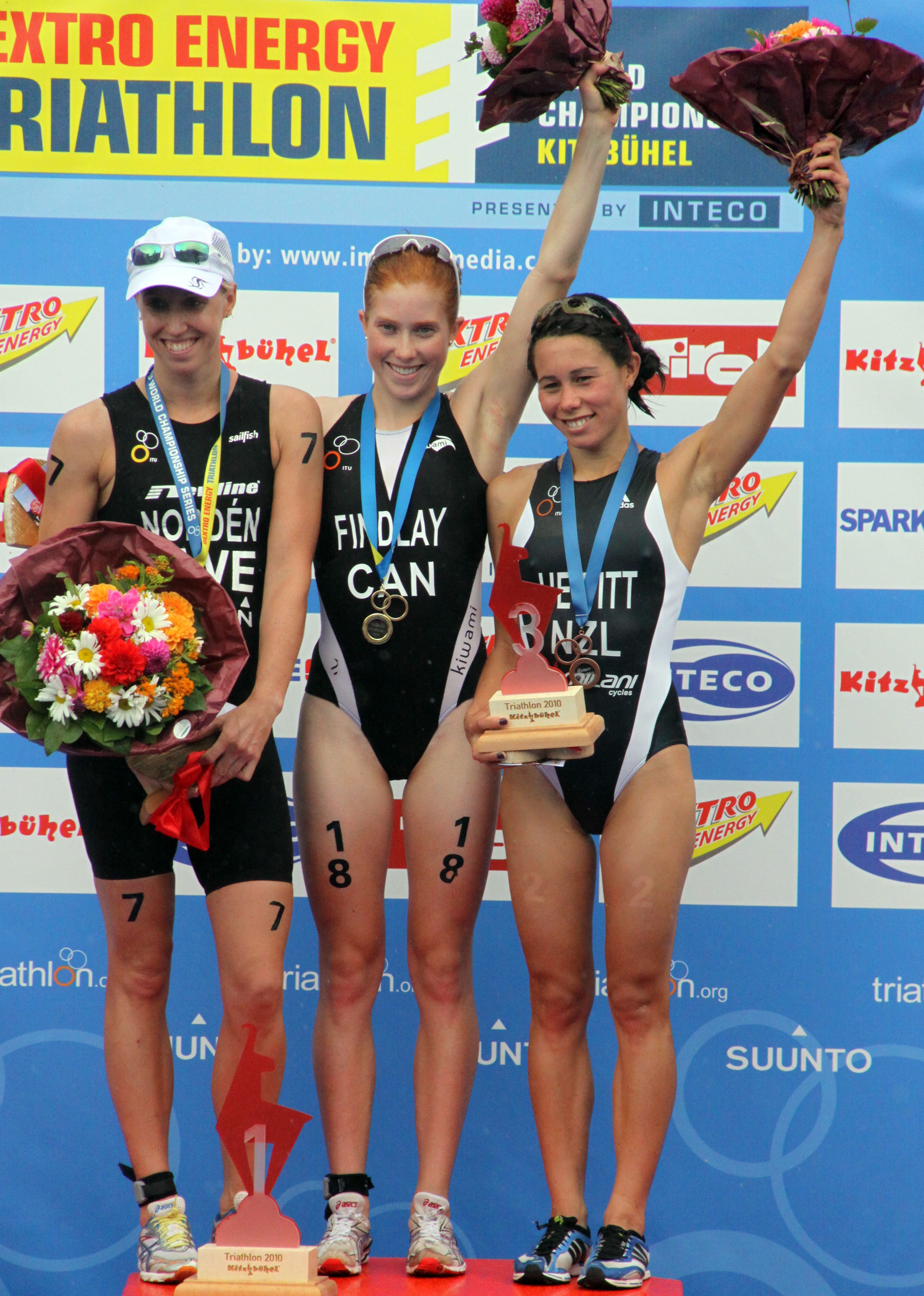 Lisa Nordén, Paula Findlay and Andrea Hewitt at the World Championship Series triathlon in Kitzbuhel, 2010.